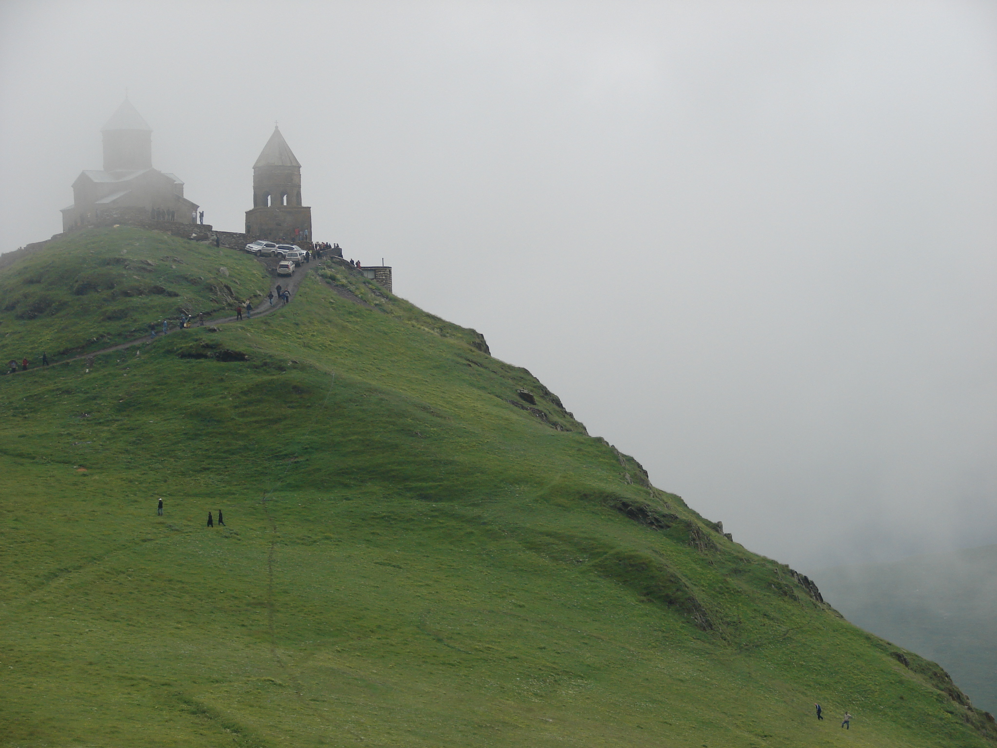 View to Gergeti Trinity Church